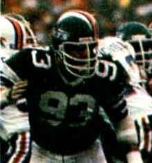 New York Jets defensive tackle Marty Lyons pictured in a defensive play during the 1981 AFC Wild Card Playoff Game on December 27, 1981.